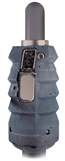 Kollmorgen’s Photonics Mast, the next generation in submarine optics. The infrared camera is located in the lower rectangular housing, while the optical cameras and laser range finder are located directly above. To the right is the mission critical camera, and the mast head is topped by the antenna assembly.